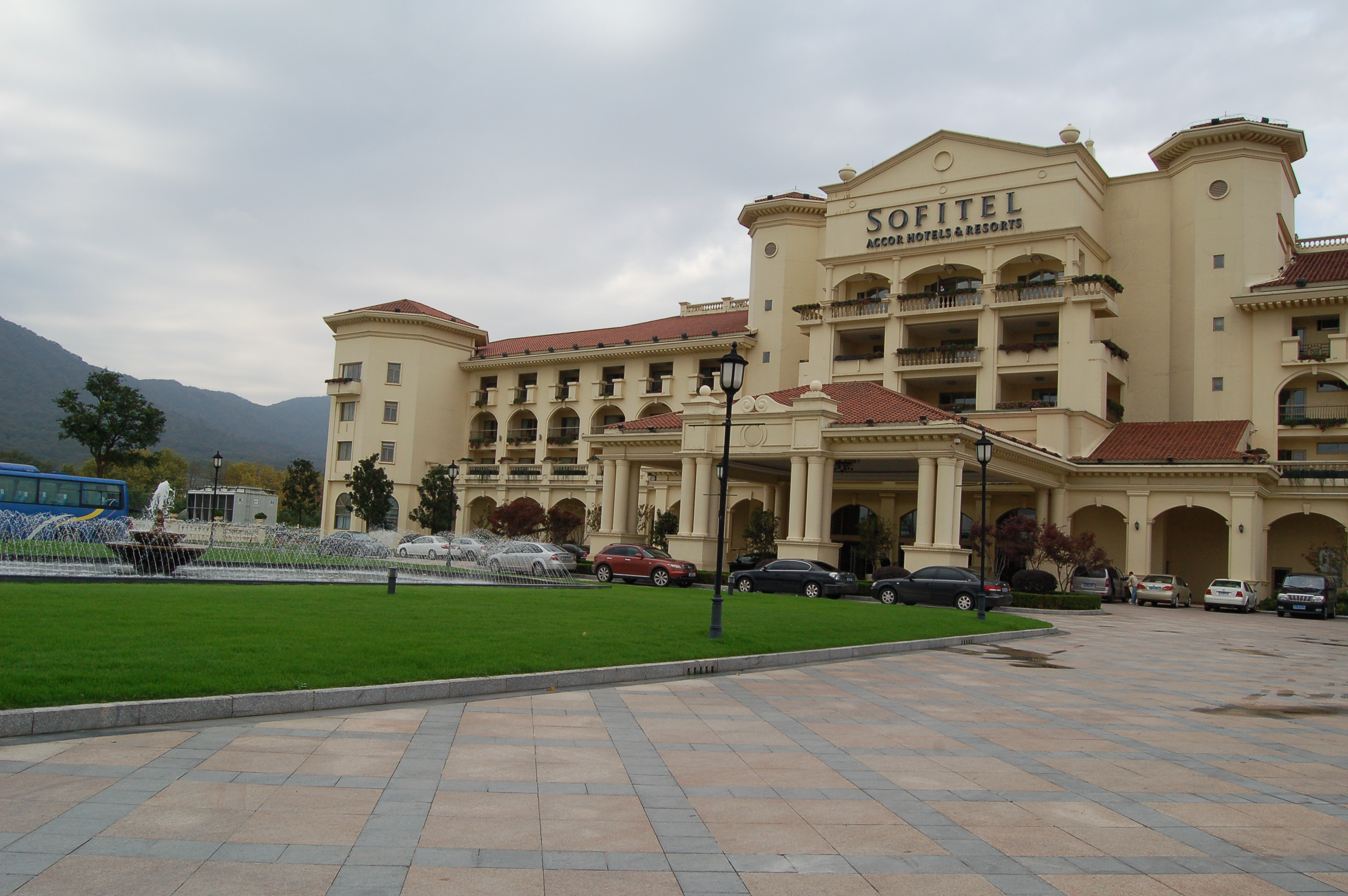 Accor Hotel at China